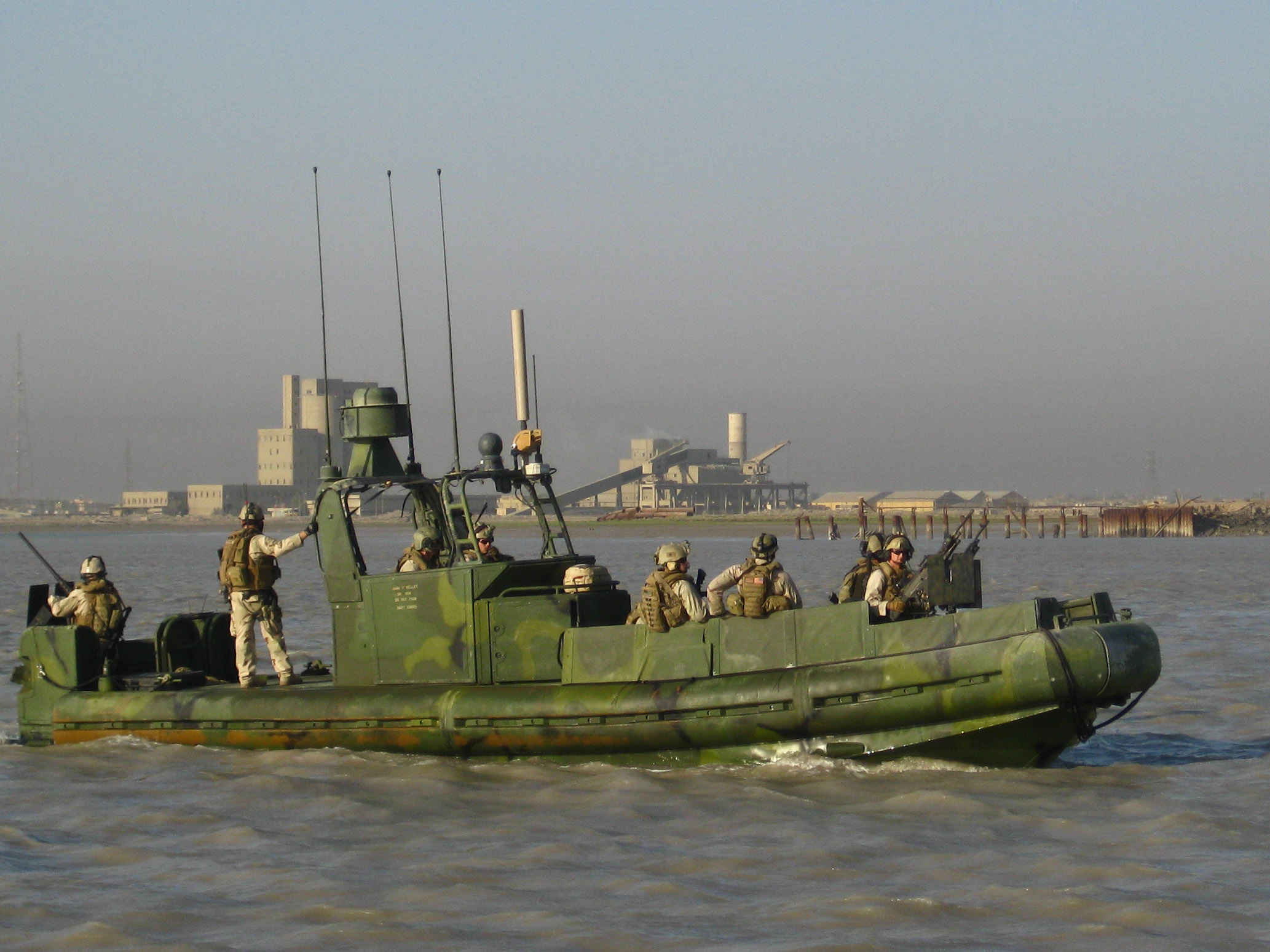 river patrol boat.